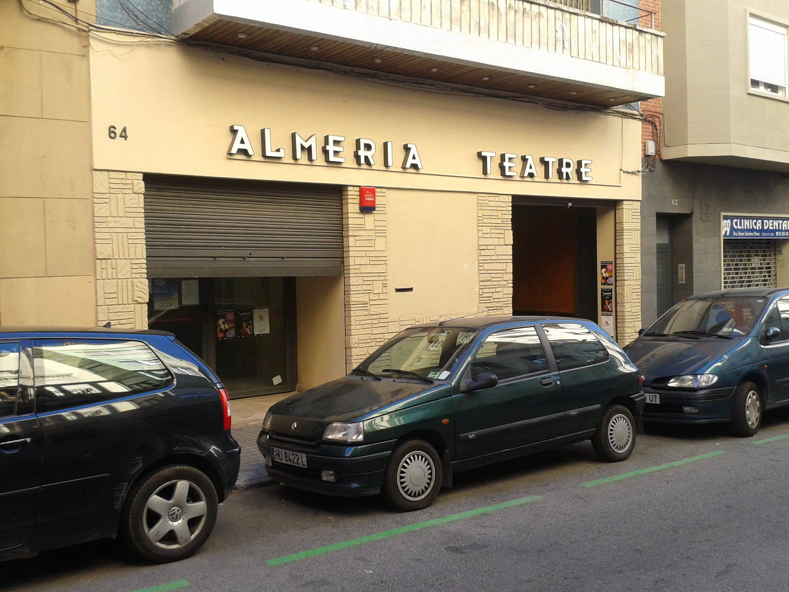 Almeria Theater